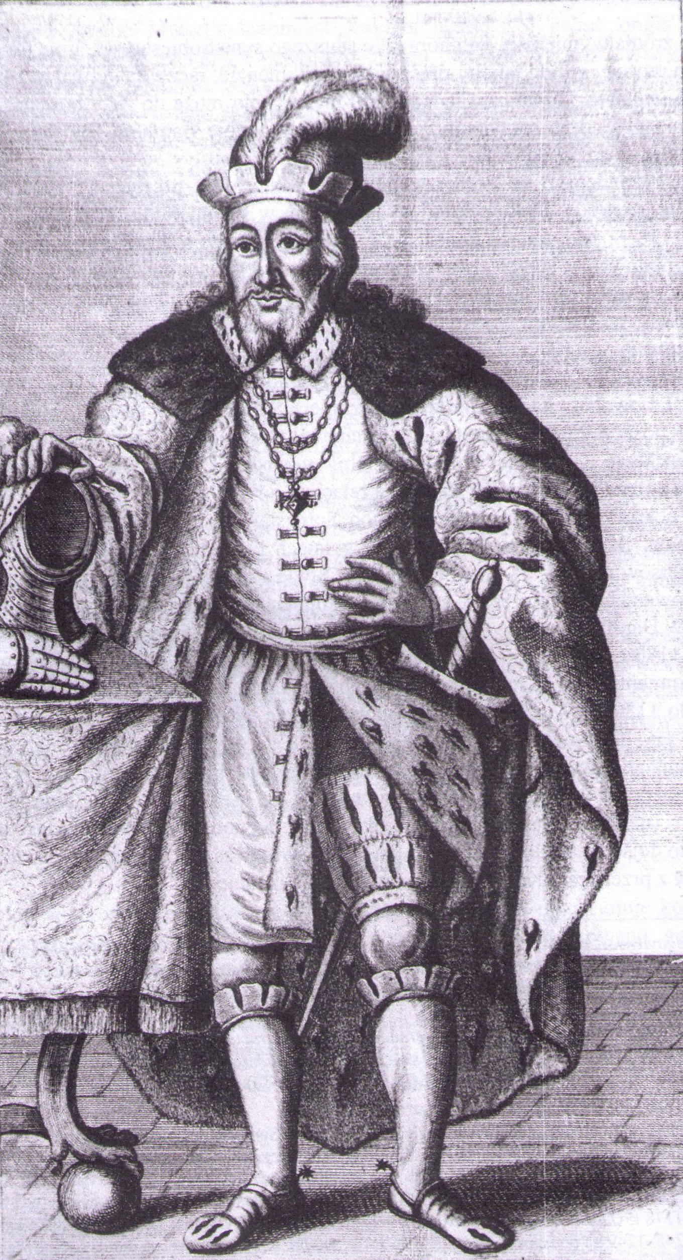 Sambor I